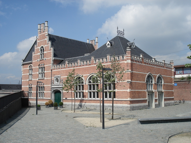 D-Club on Den Dam, Antwerp, Belgium